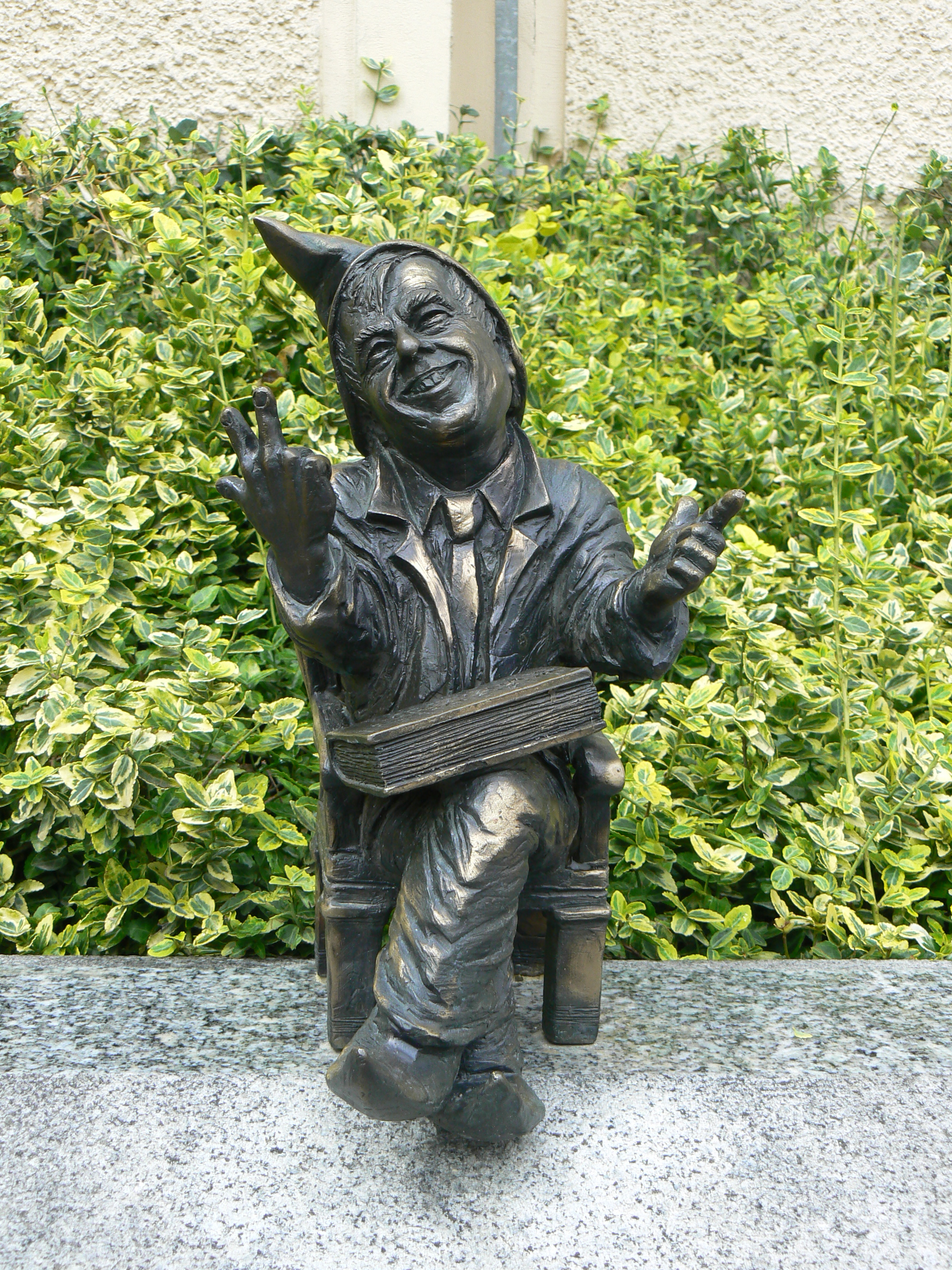 Wroclaw dwarf - Professor Jan Miodek.